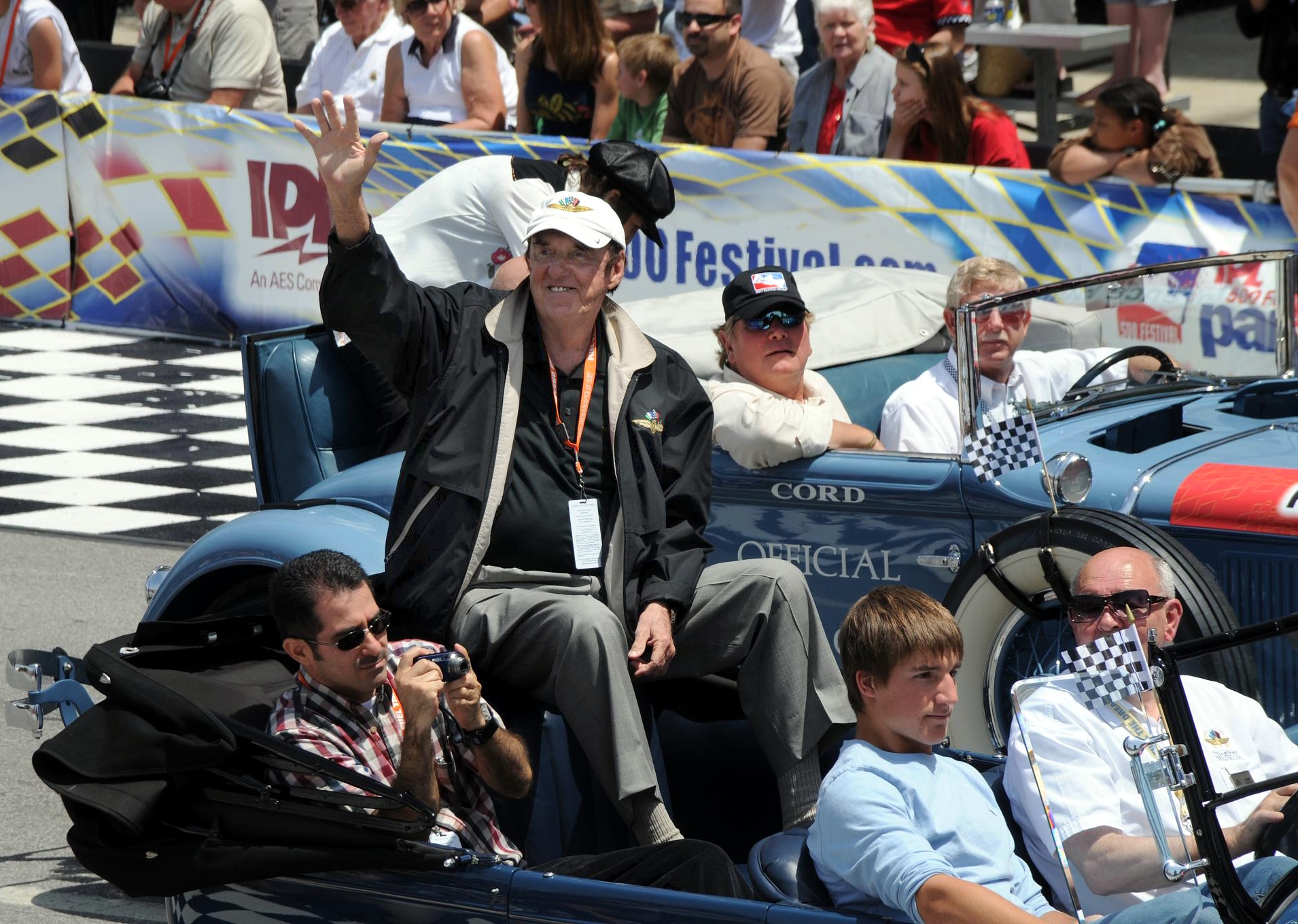 Jim Nabors at the opening of the Indianapolis 500